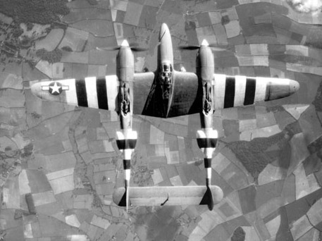 Photo reconnaissance Lockheed F-5 Lightning photographed against the English countryside from the vertical camera installation of another photo Lightning.